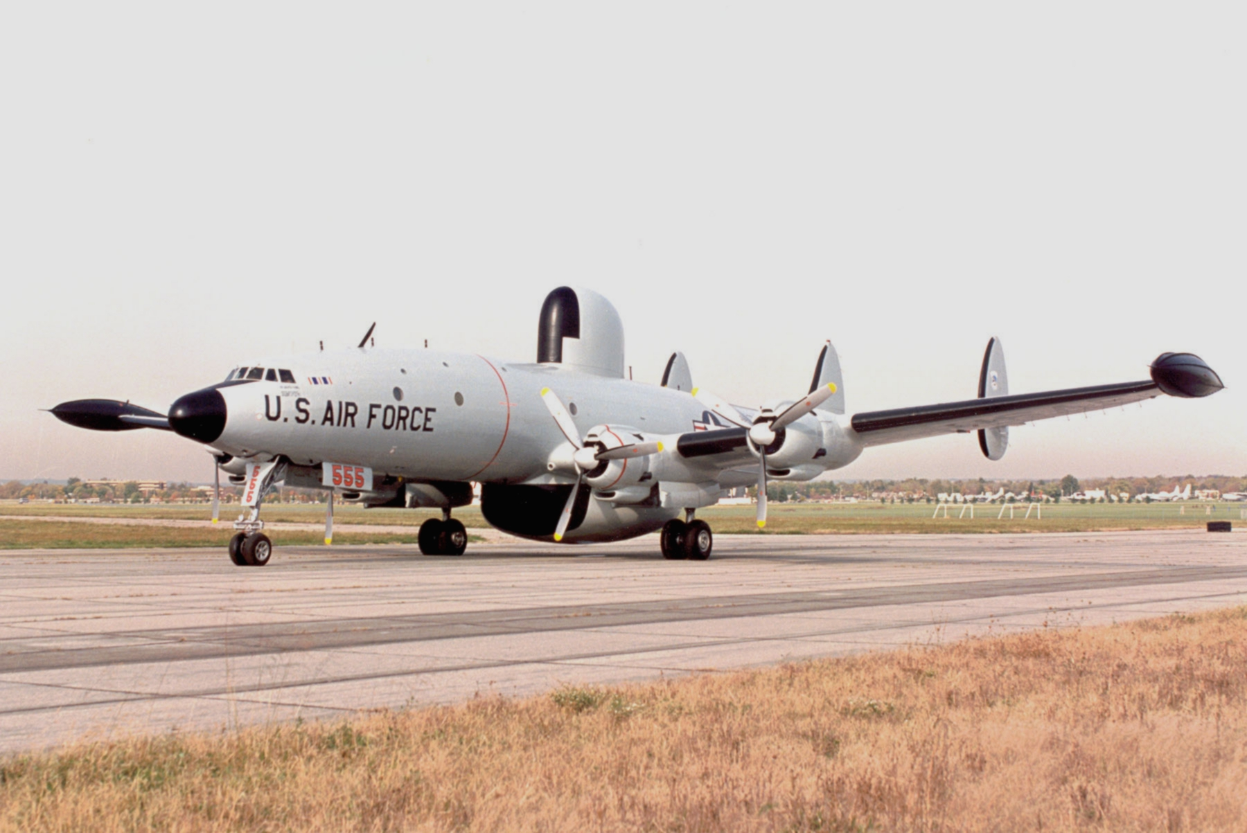 A U.S. Air Force Lockheed EC-121D Warning Star (s/n 53-555) at the National Museum of the United States Air Force. The crew of this aircraft made the first radar-guided intercept on 24 Oct 1967, when it was operating over the Gulf of Tonkin and directed two USAF McDonnell F-4C Phantom II fighters to destruct a North Vietnamese Mikoyan-Gurevich MiG-21. The aircraft is today on display at National Museum of the USAF.